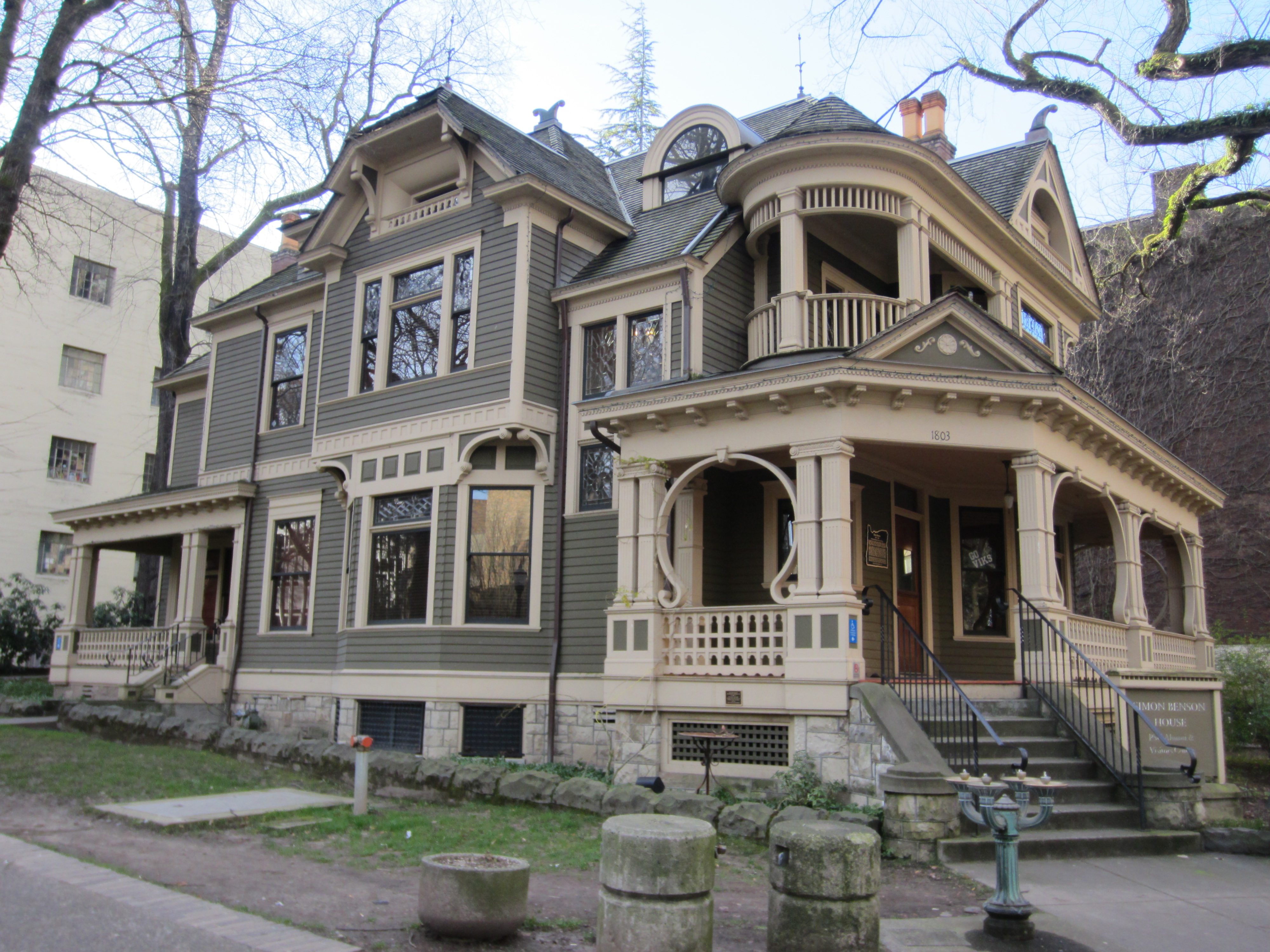 The Simon Benson House, located on the campus of Portland State University (PSU), in Portland, Oregon in 2012